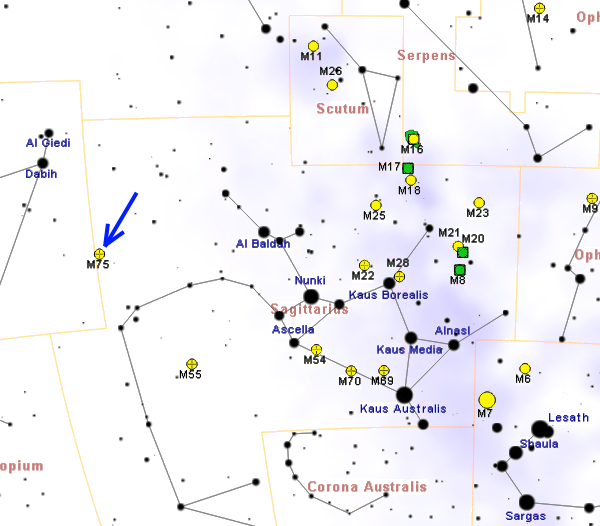 Map of M75